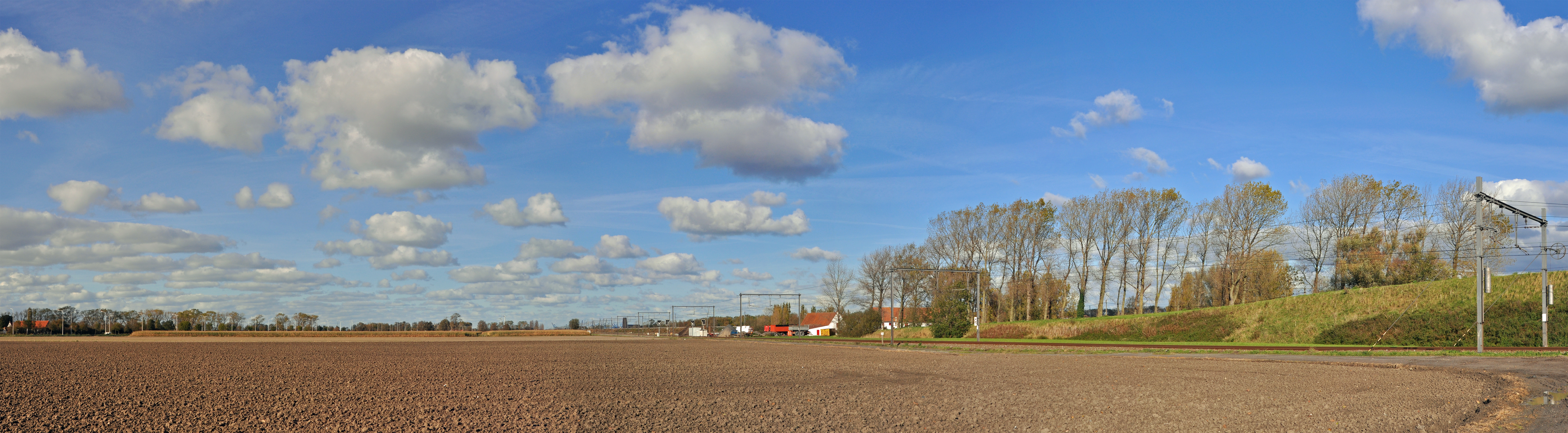 The countryside at Lissewege, north of Bruges (Belgium). At the right: railway line 51A Bruges-Zeebrugge.